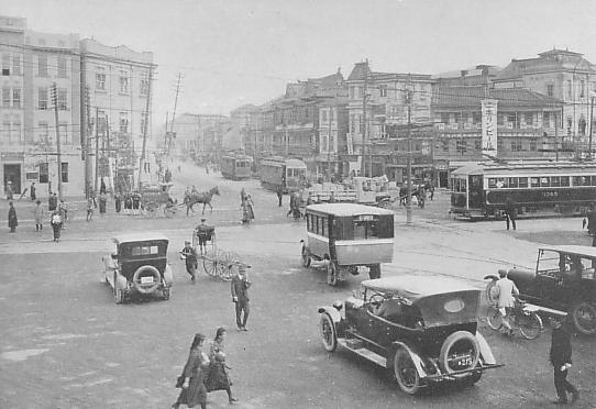 Hibiya Intersection in the Taisho era